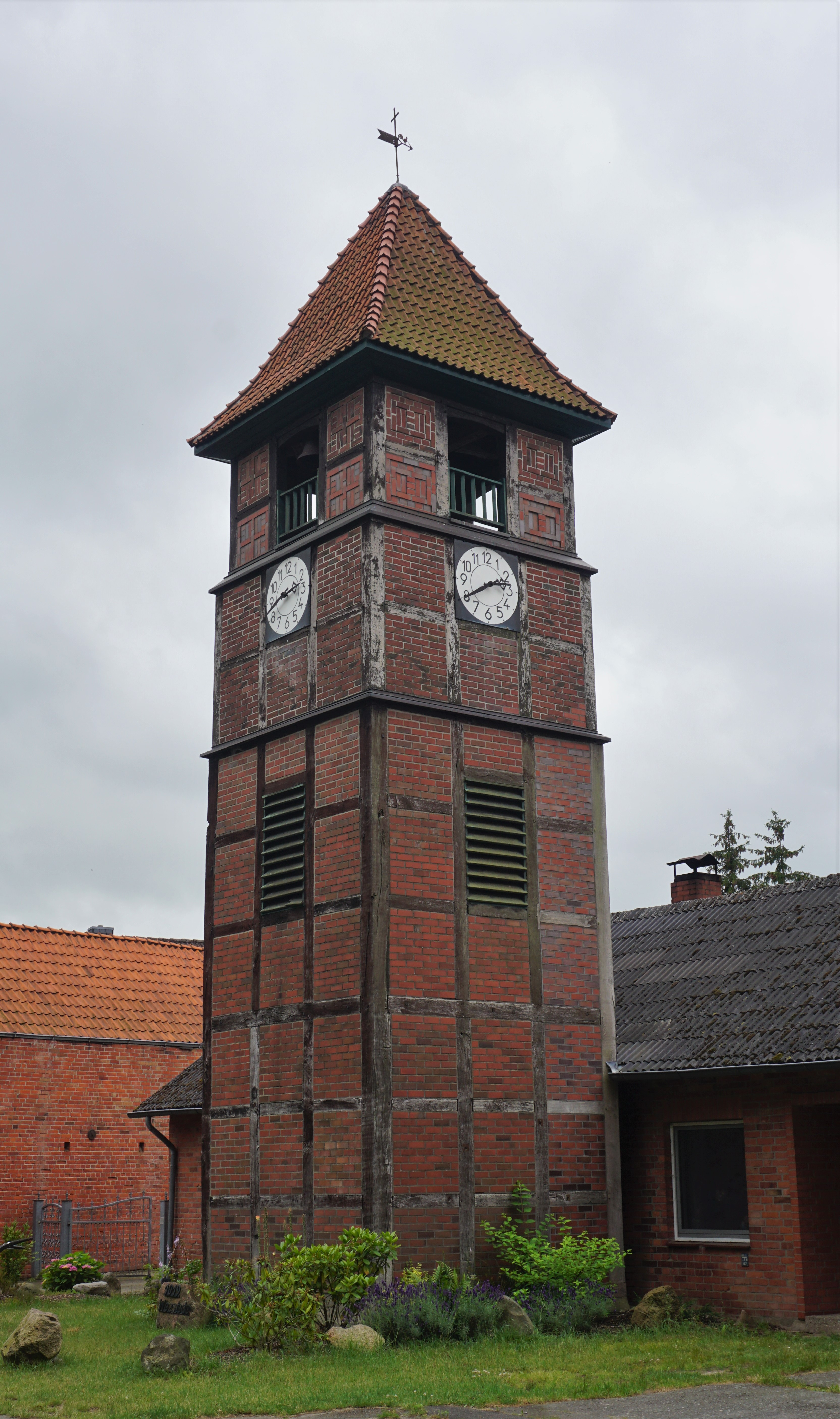 The half-timbered bell tower of Weste in the district of Uelzen in Lower Saxony.